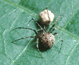 female Platnickina maculata with eggsac from Okinawa.